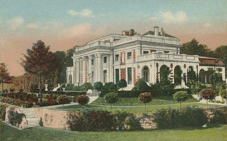 Bellefontaine, Lenox, MA; from a 1912 postcard. Designed by Carrere and Hastings, the house was built in 1897 for Giraud Foster.